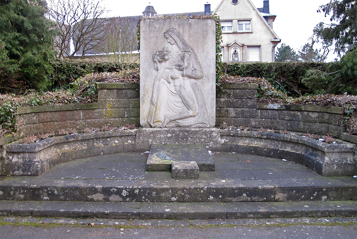 War memorial WWII, Monument aux Morts, Luxembourg-Gasperich